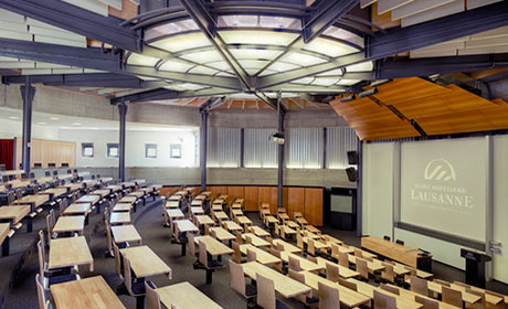 View of the main auditorium